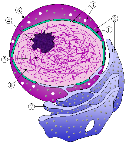 Cell nucleus and endoplasmic reticulum file from nupedia, bringing over so it's not offsite Originally uploaded to English Wikipedia by Koyaanis Qatsi (23:00, 3 November 2002)